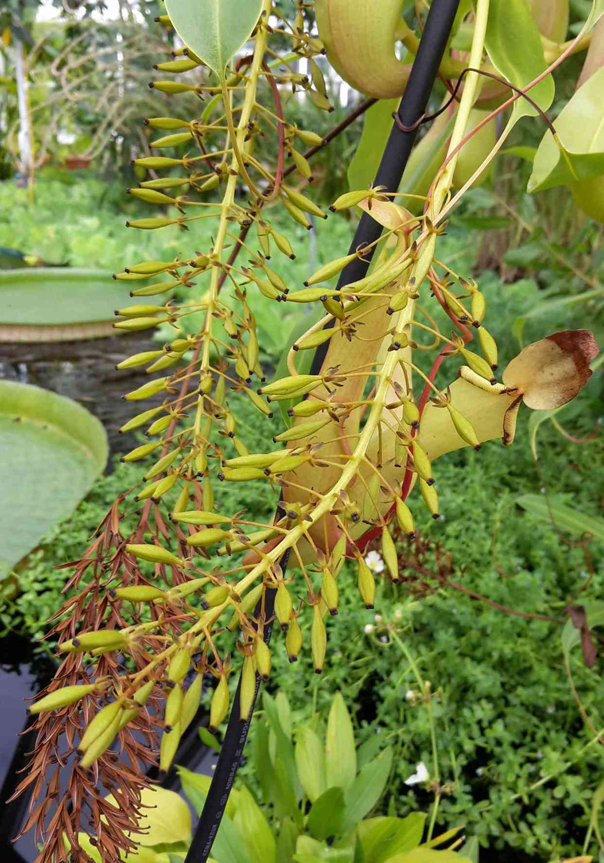 Nepenthes alata unbudded flowers.